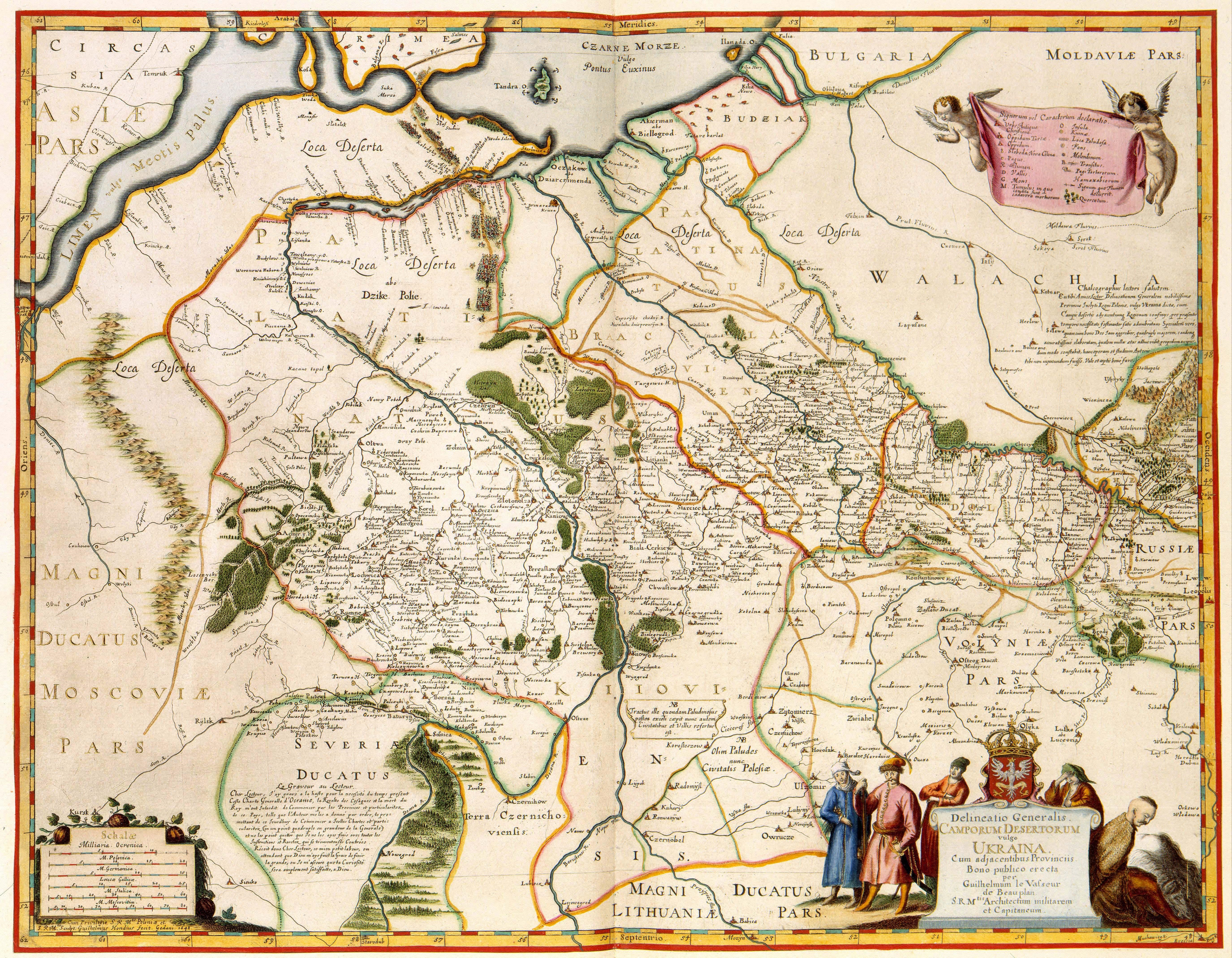 Ukraine.